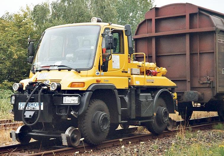 Unimog U-400 as Two-way-vehicle.